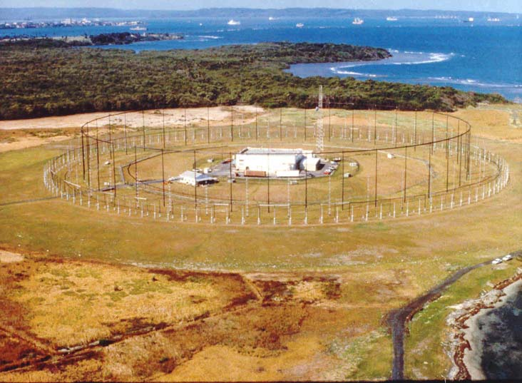 Aerial view of NSGA Galeta Island in early 1991